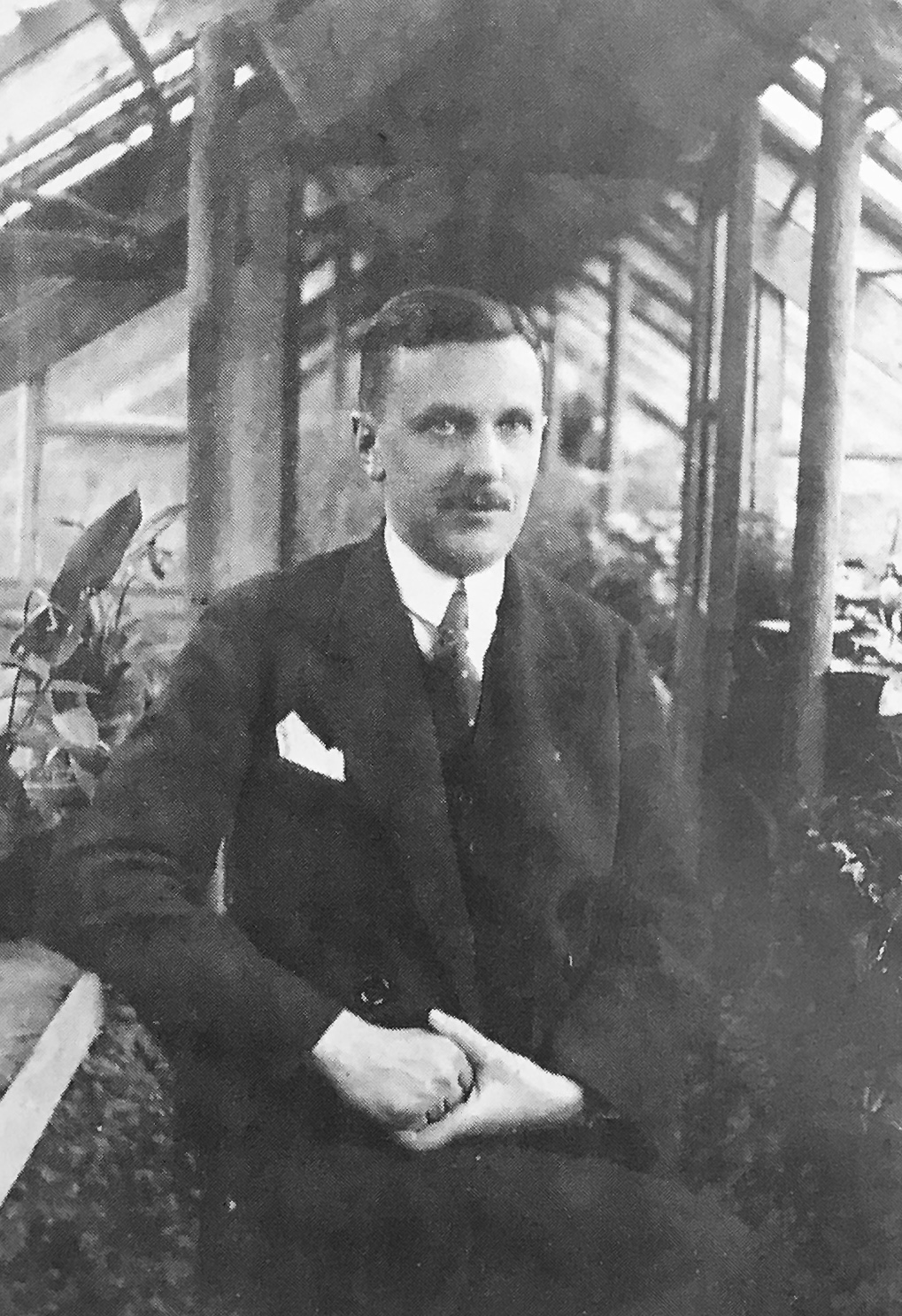 Ludwig Weinbrenner